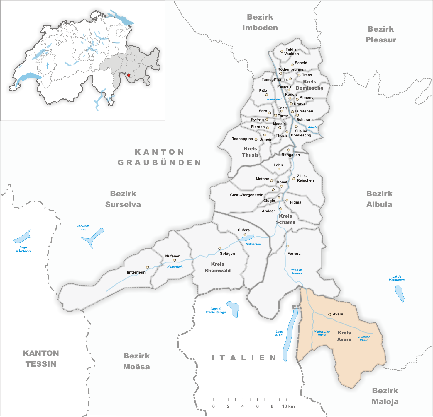 Municipality Avers